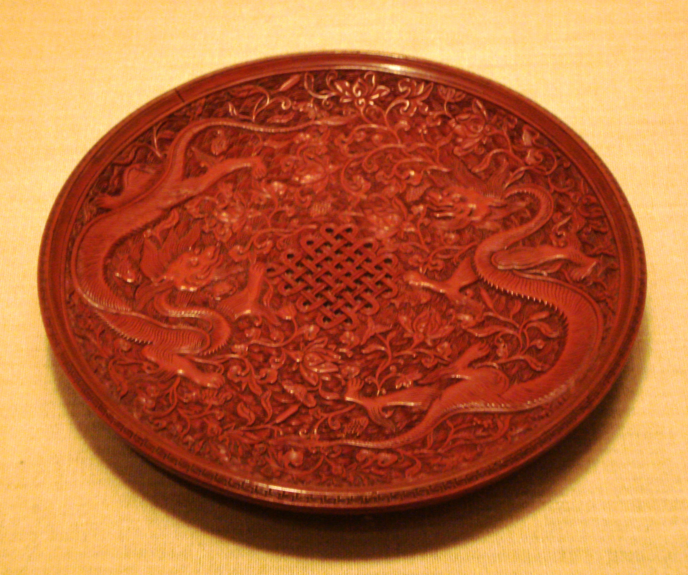 A Chinese dish made of red lacquer over wood, from the Ming Dynasty, dated late 15th to mid 16th century. In the center design of this dish, two archaistic carved dragons without scales twist their bodies in reach of an endless knot, a symbol of longevity in Chinese culture. To make this dish even more auspicious, on the reverse side there is a carved design of chrysanthemums, flowers which are representative of long life in Chinese culture. The designs of billowing waves and lotus flowers carved into the background represent a watery environment, which the Chinese believed was the dragon's natural habitat. Other designs include cattails, a fish, and a crab.